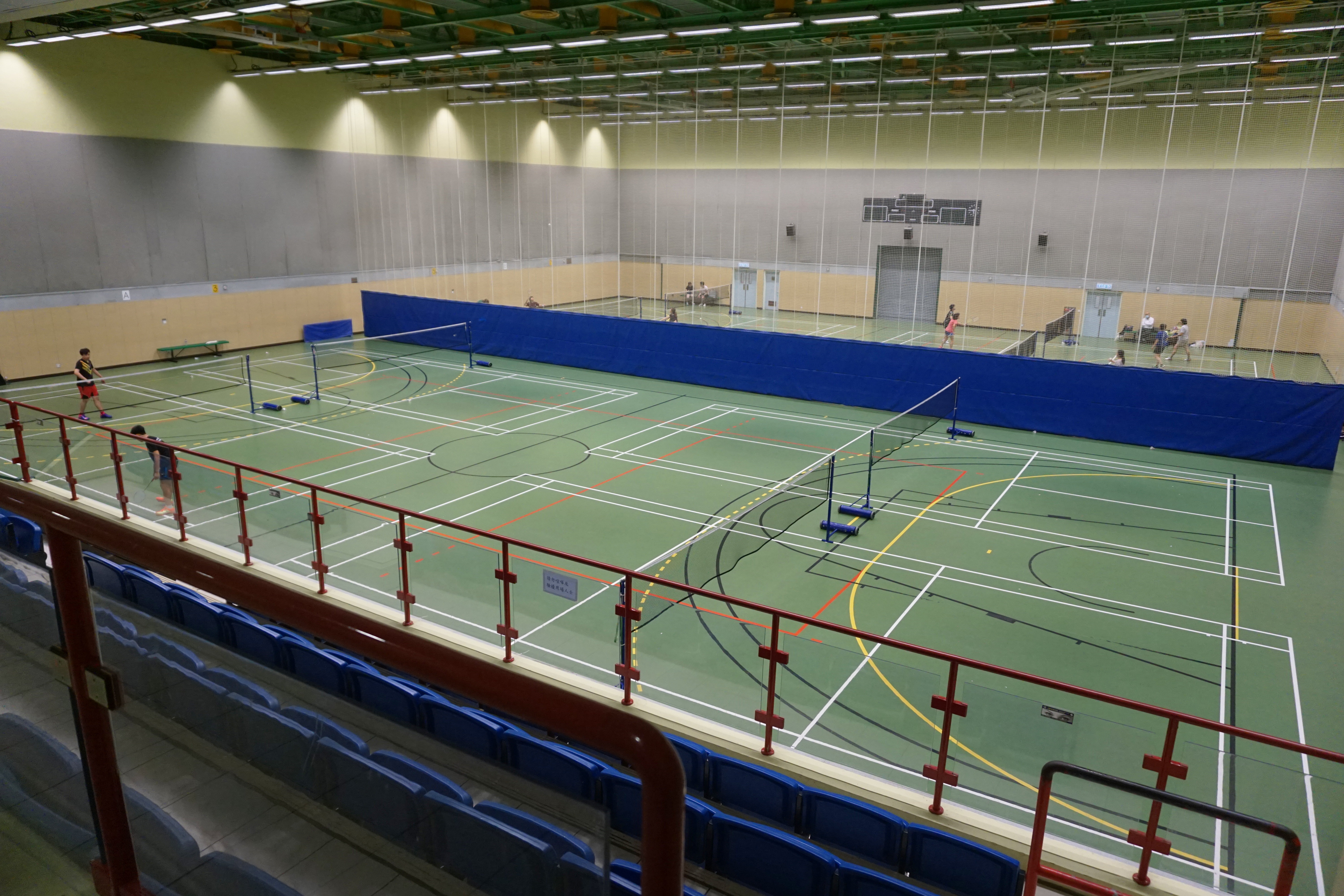 Lam Tin (South) Sports Centre in Lam Tin, Hong Kong.